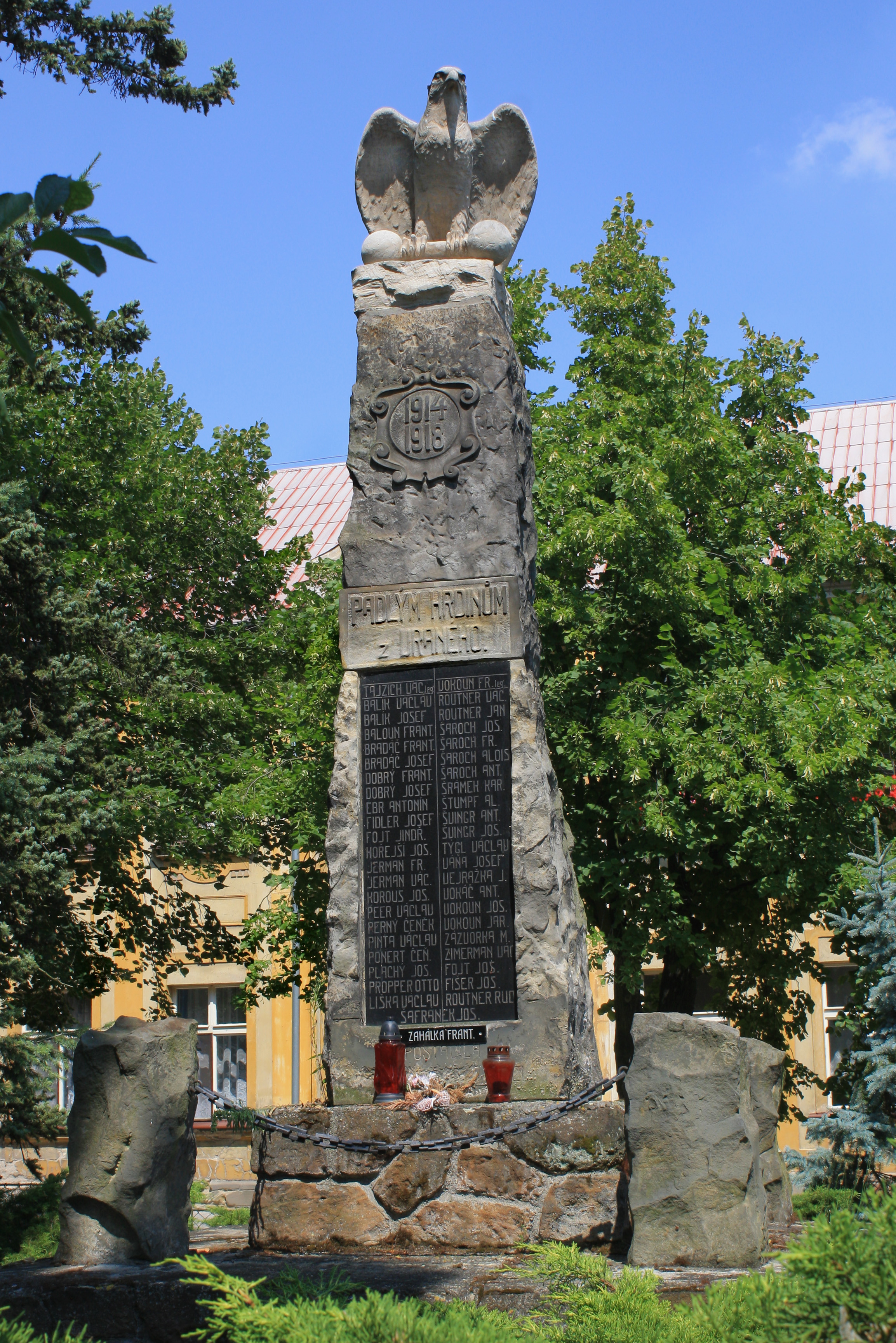 World War I memorial in Vraný, Czech Republic